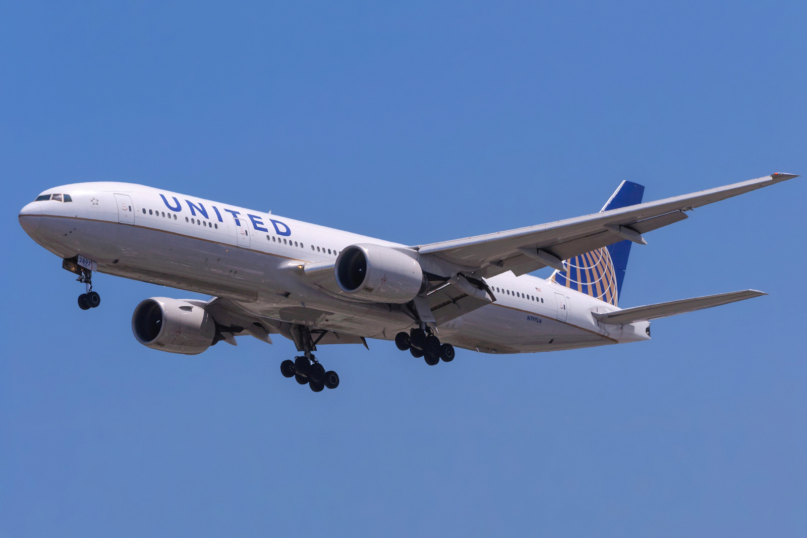 Out and about planespotting again at LAX, just two weeks after planespotting at San Francisco. I'm standing on Sepulveda Boulevard between 24L and 24R approaches, with emphasis on Asian heavies. Here is a domestic one, though still coming in from Asia all the same. This flight from Tokyo Narita is listed as United 801 in United's schedules, and will soon switch to the Boeing 787, with a new flight number, United 33. But on this particular day (and a few recent days at least), its callsign is United 6608. Asiana Airlines codeshares on this flight, and Asiana's flight number for this flight is 6608 as well. N797UA, Boeing 777-200ER